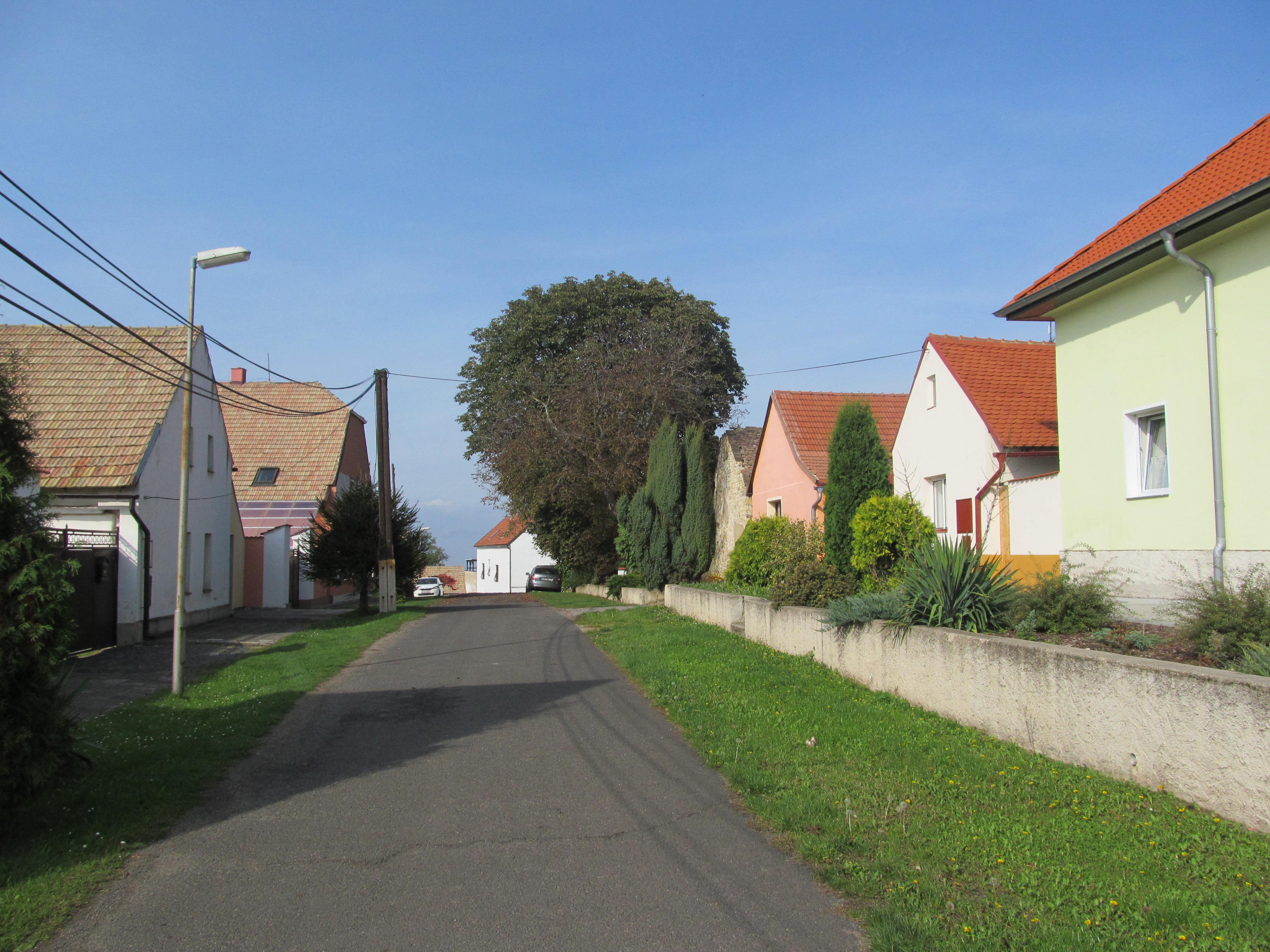 Main street in Horka